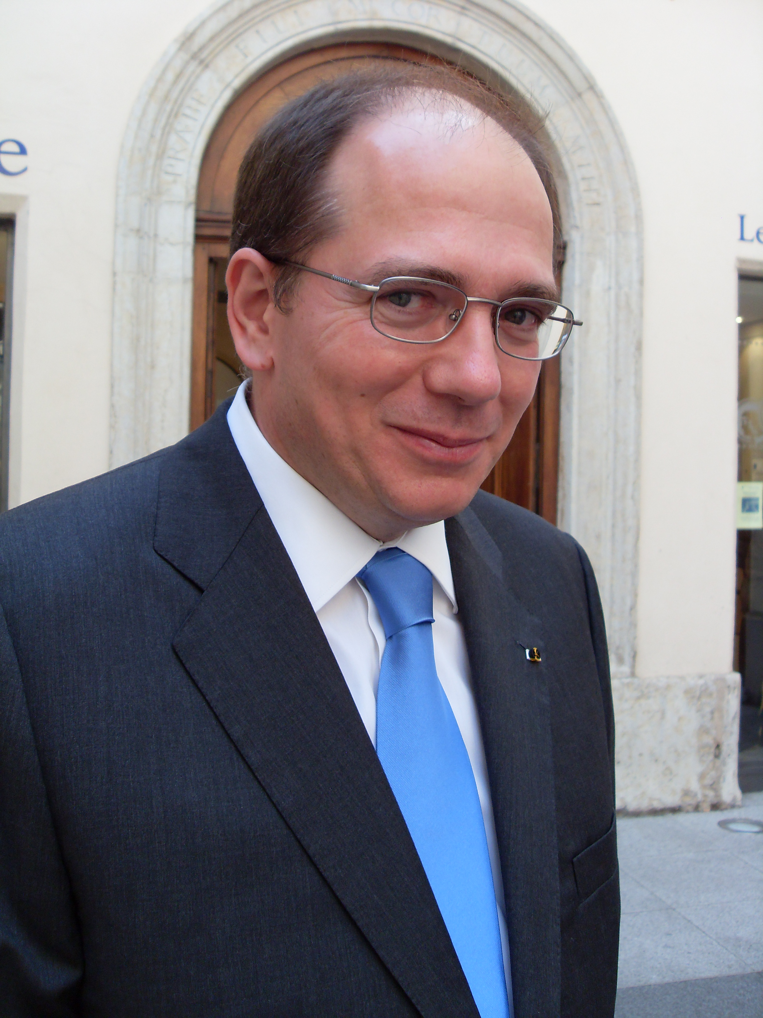 Prof. José António Falcão